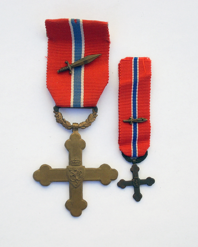 Norwegian War Cross with miniature